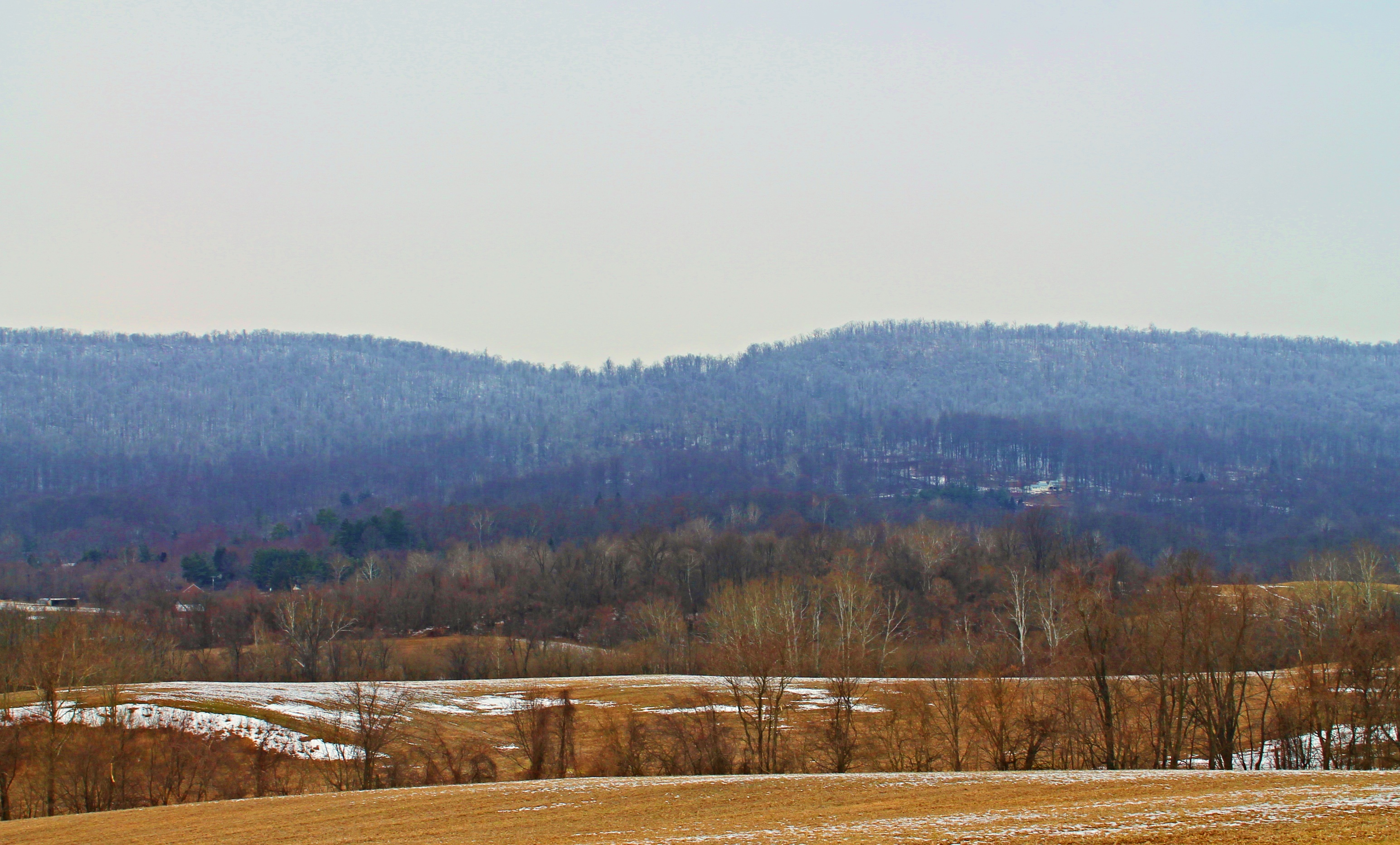 Solomon's Gap from MD Rt. 67